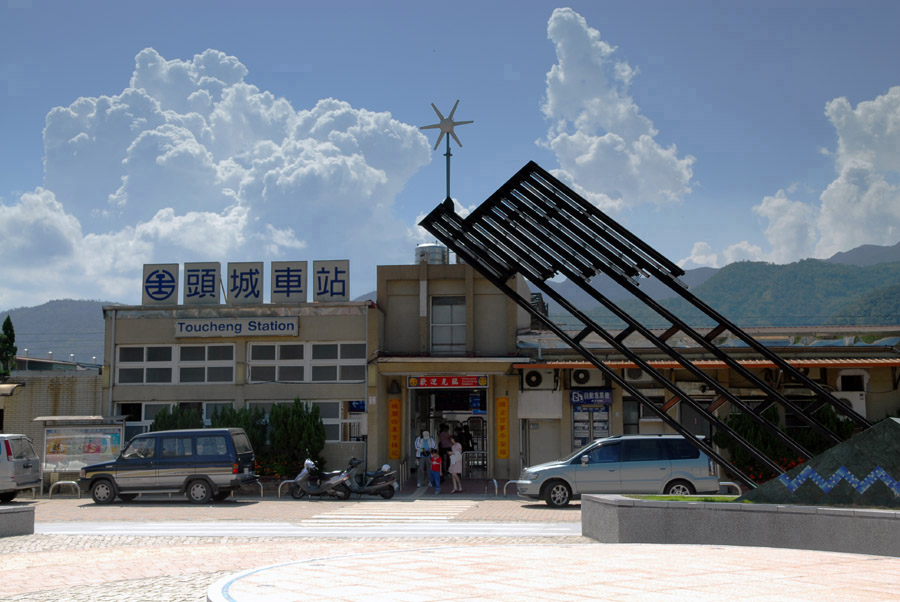 TouCheng Station is a local train station of Yilan Line, part of Taiwan's eastern rail line. It's the main station of TouCheng Town, YiLan County.